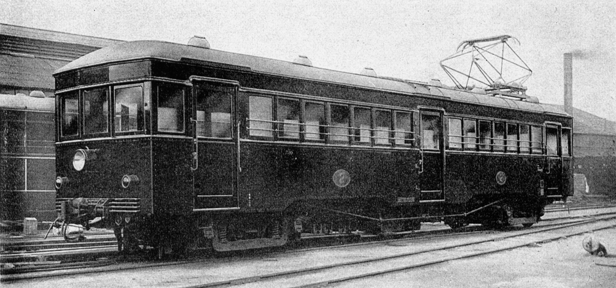 Ichibata elc rly deha 1 EMU No.2